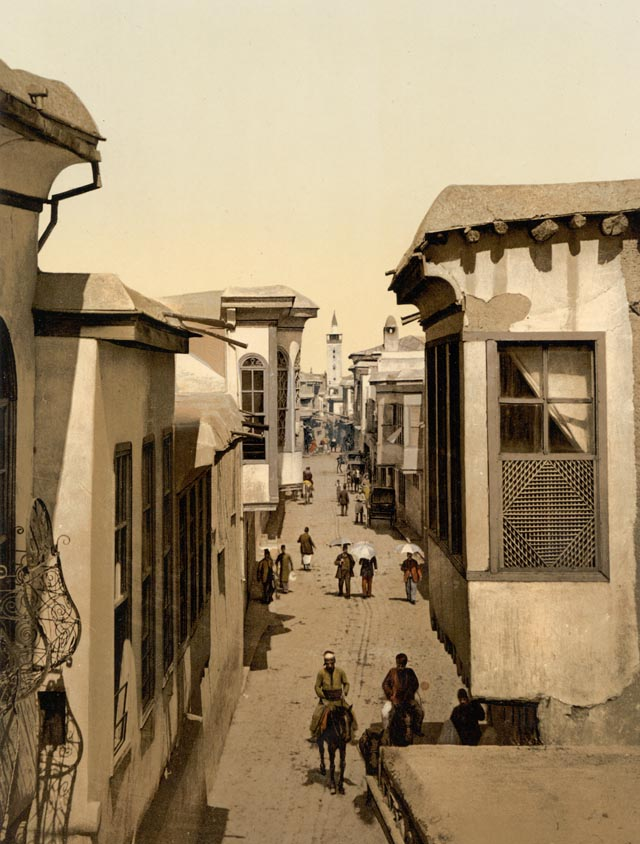 The street called straight Damascus Holy Land (i.e. Syria)